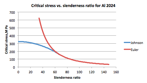 Uses Johnson and Euler formulas to illustrate transition between higher and lower slenderness ratios